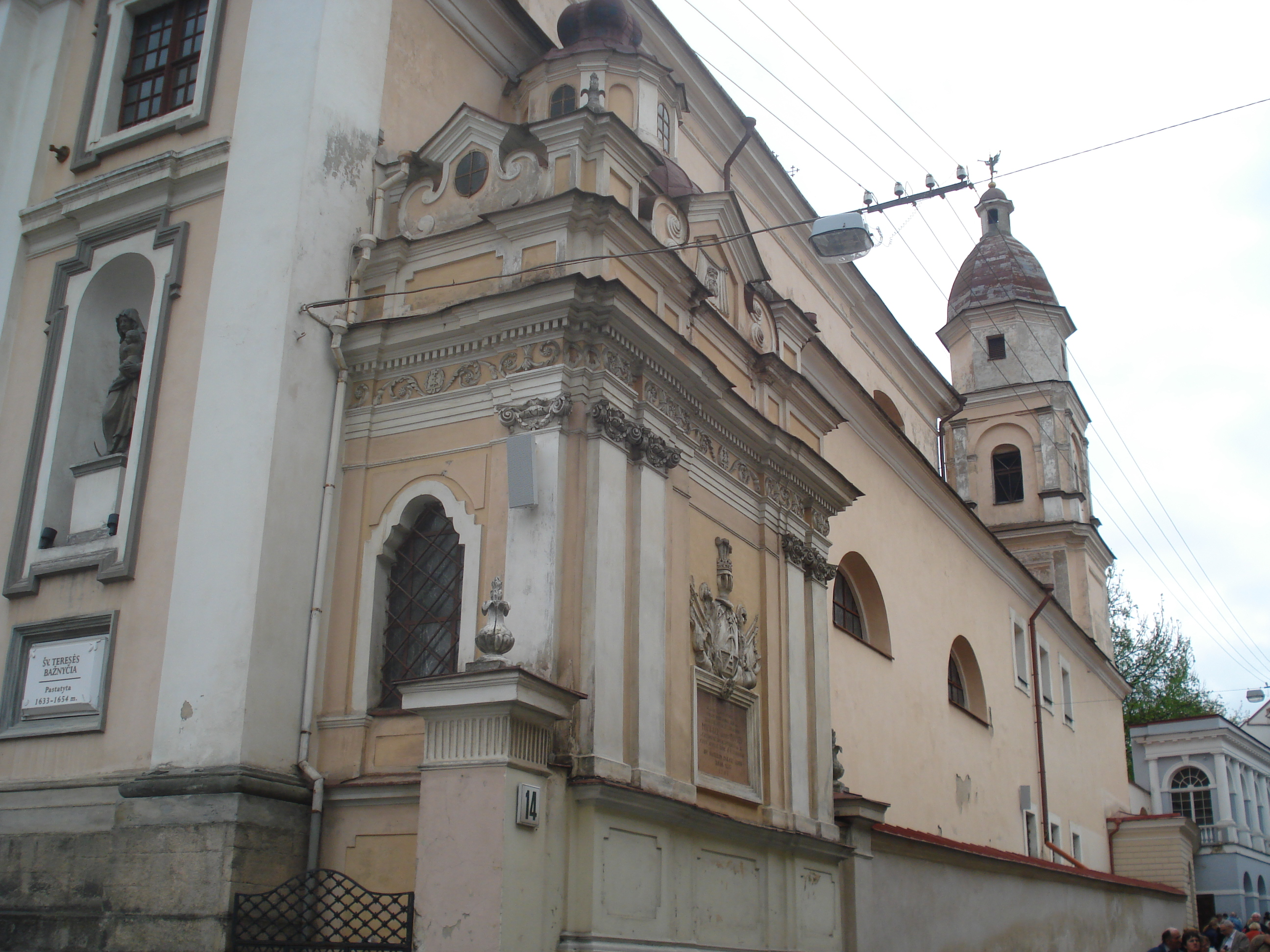 Western facade of the Church of the St Teresa in Vilnius